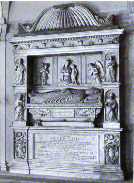 From Gerald Stanley Davies Renascence: The Sculptured Tombs of the Fifteenth Century in Rome (1916), which is in the public domain